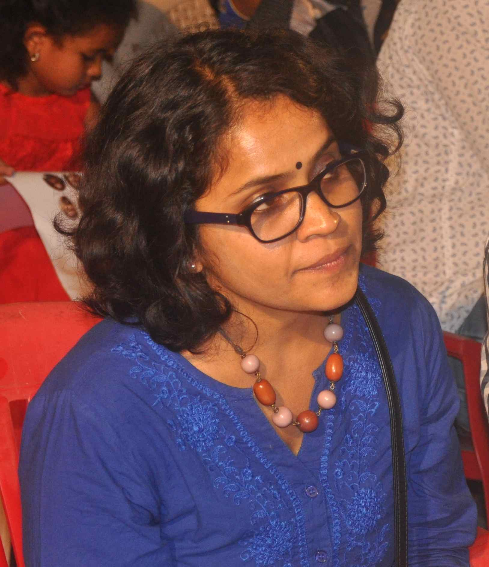 Vidhu vincent, Malayalam Film director